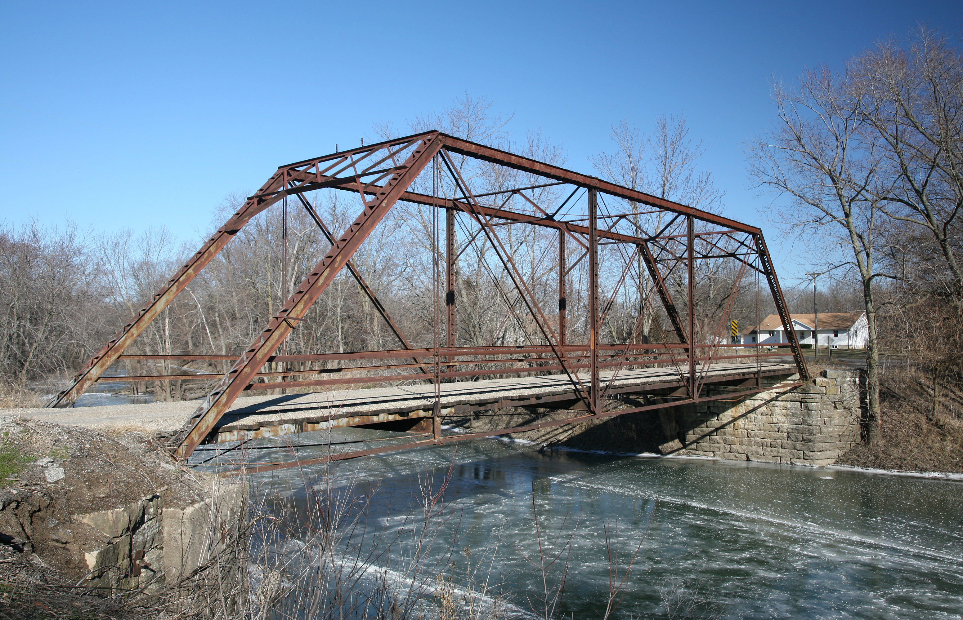 Iron truss bridge in Chesterville, Illinois.